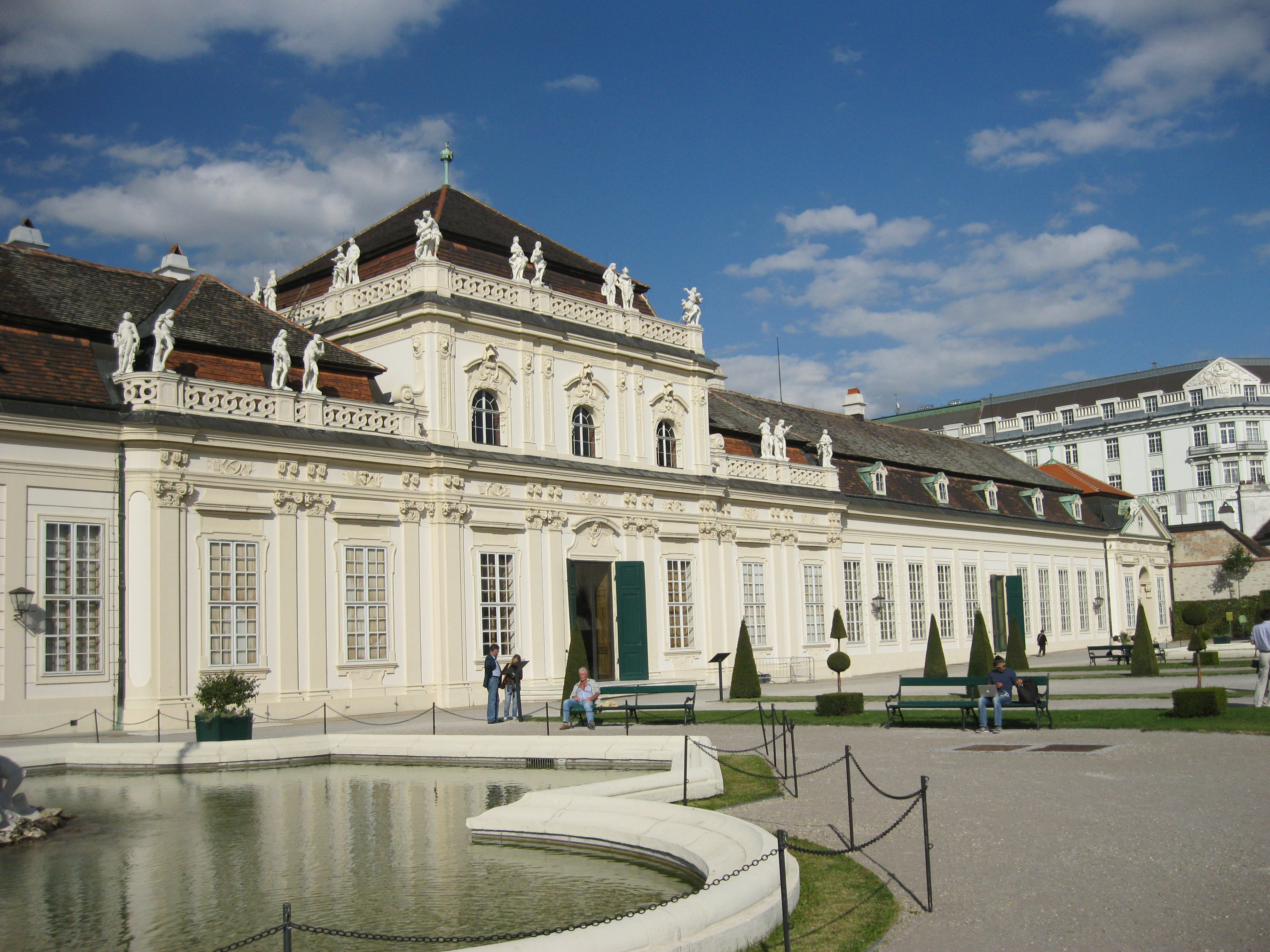 Lower Belvedere in Vienna Object location48° 11′ 47.59″ N, 16° 22′ 50.82″ E